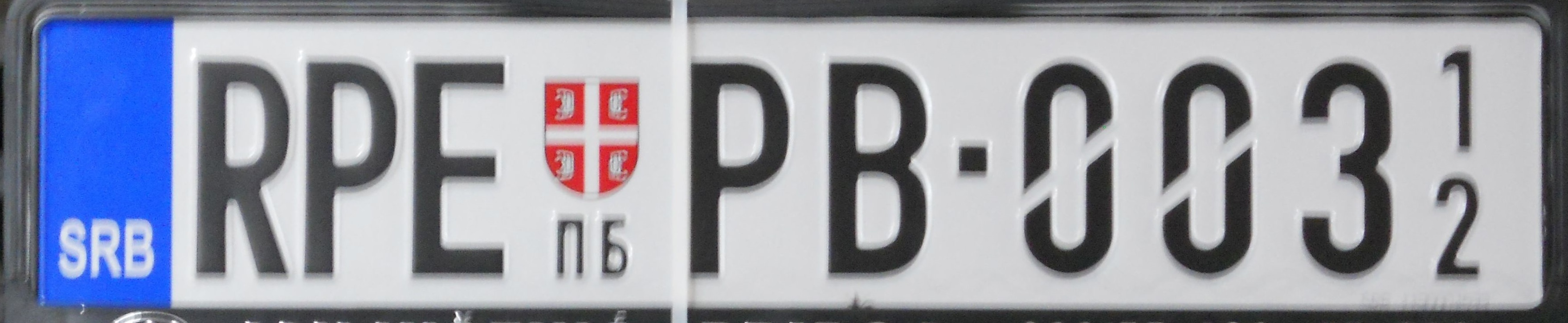 Temporary license plate (RPE) from Priboj, Serbia. Issued in 2012 for an abroad trip. Seen on a new Serbian FAP truck.